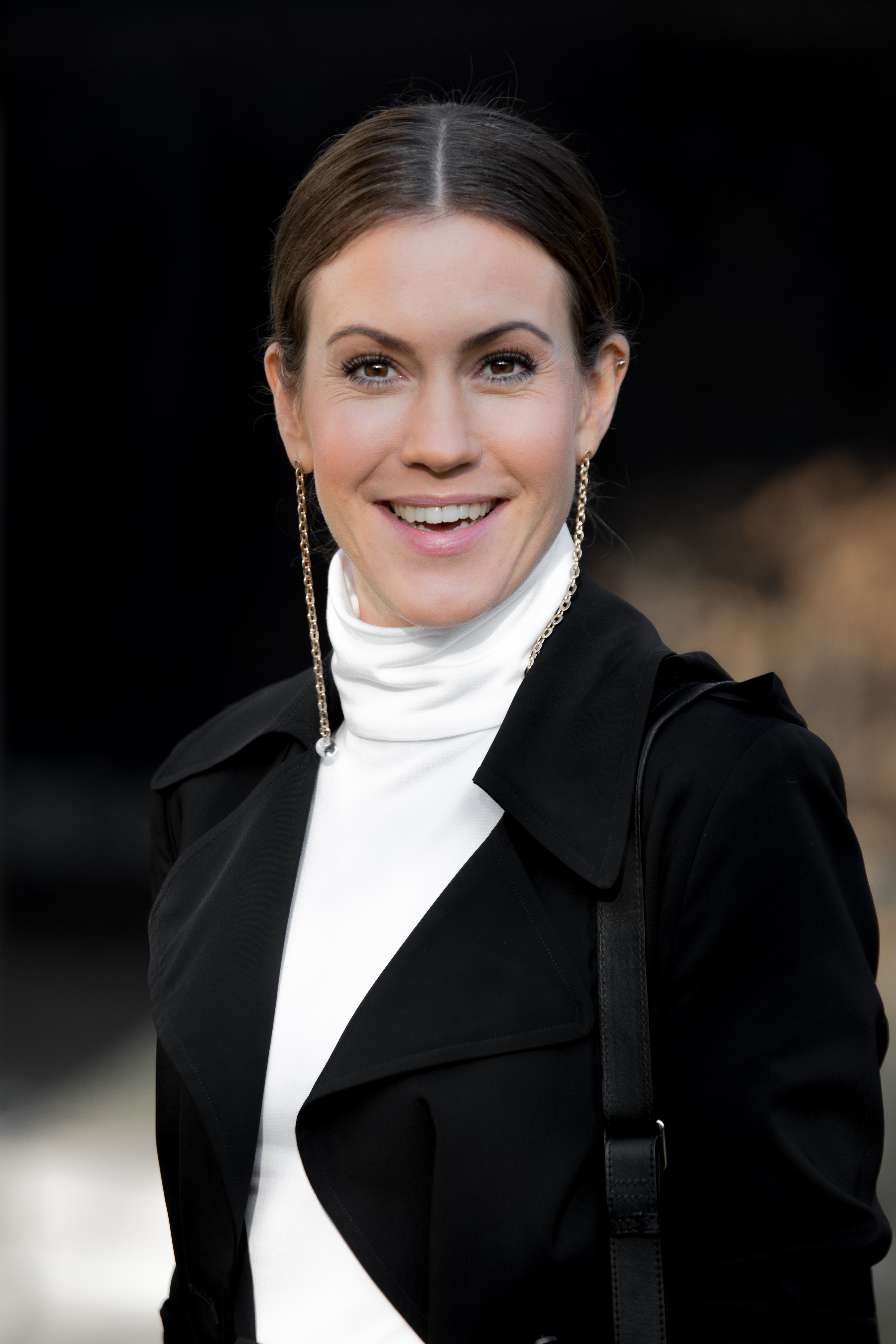 Wolke Hegenbarth at the reception of the state government of Hesse, Berlinale 2018